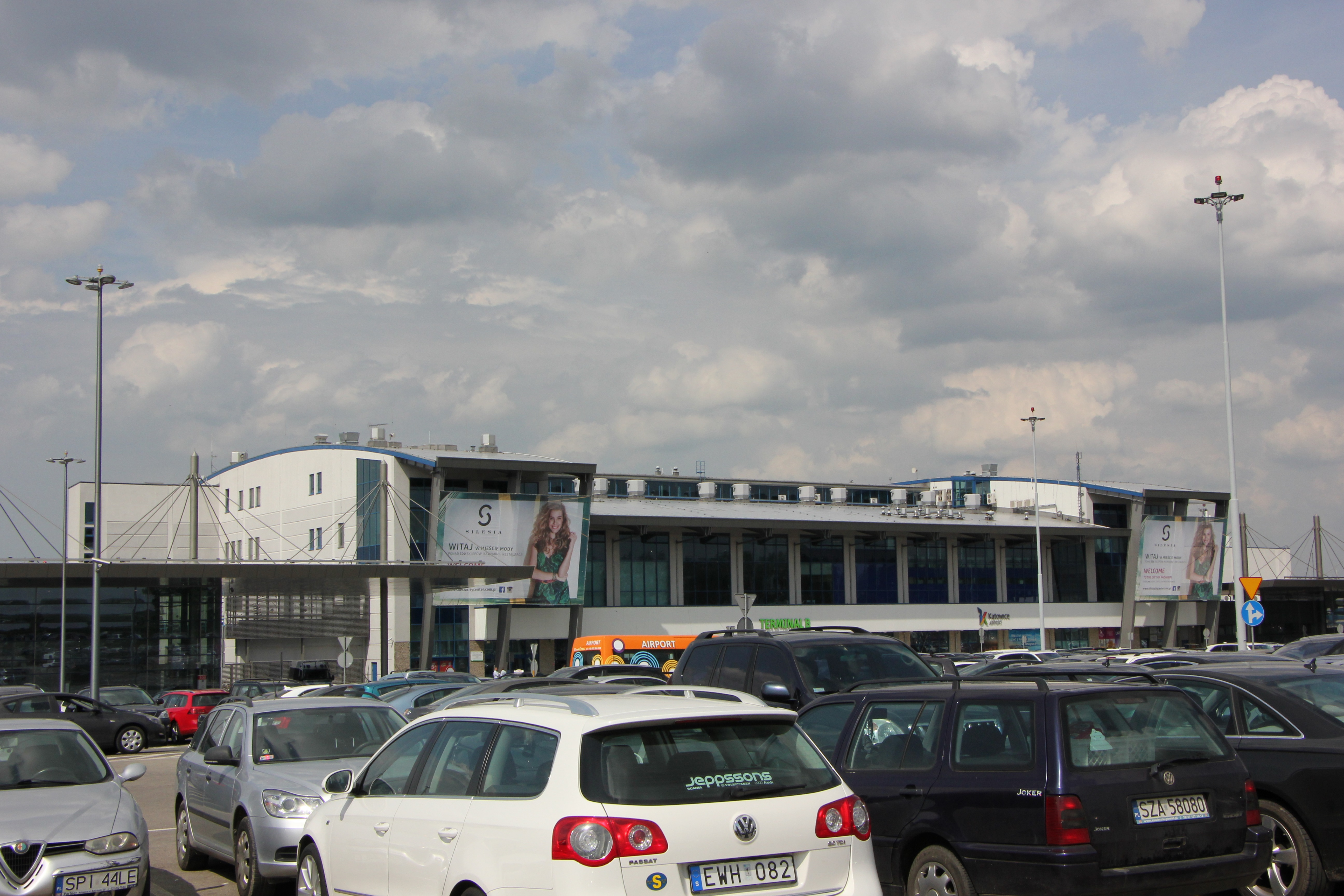 Terminal B seen from Car Park P1